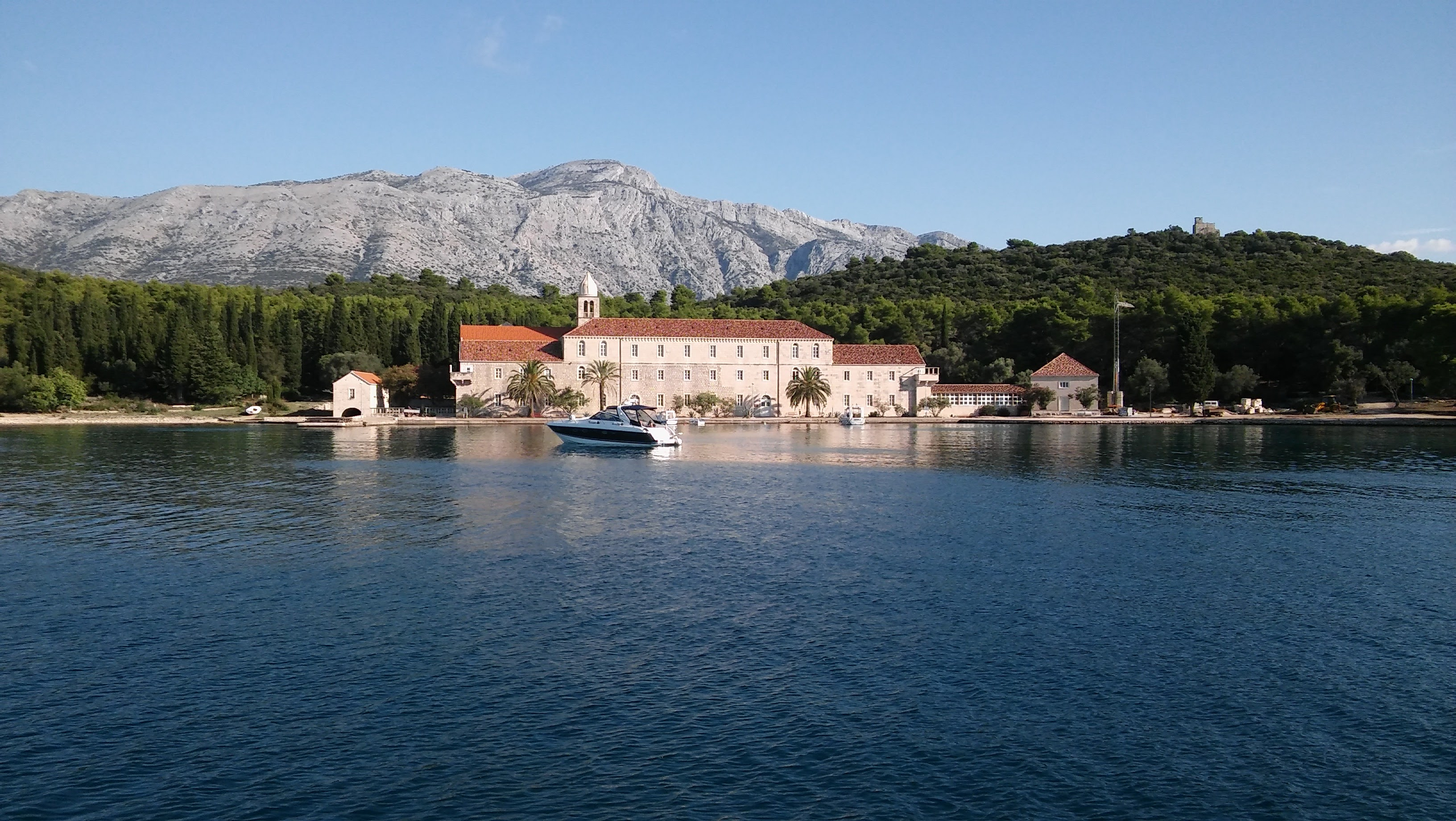 Franciscan Monastery, Badija island